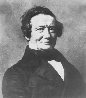 Portrait of Benjamin Russell (1804-1885), artist